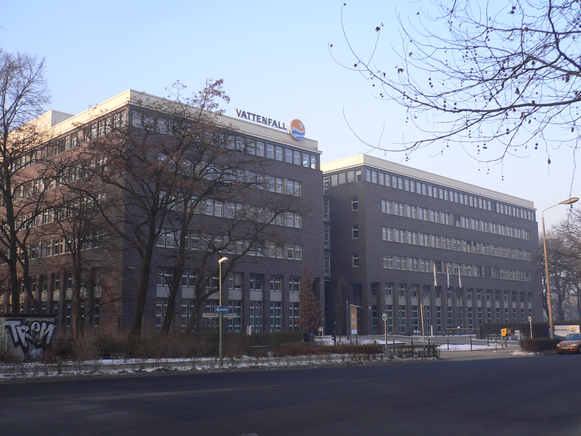 Vattenfall office in Berlin-Alt-Treptow, former Bewag head office